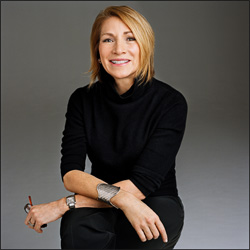 Marie Brenner publicity photo